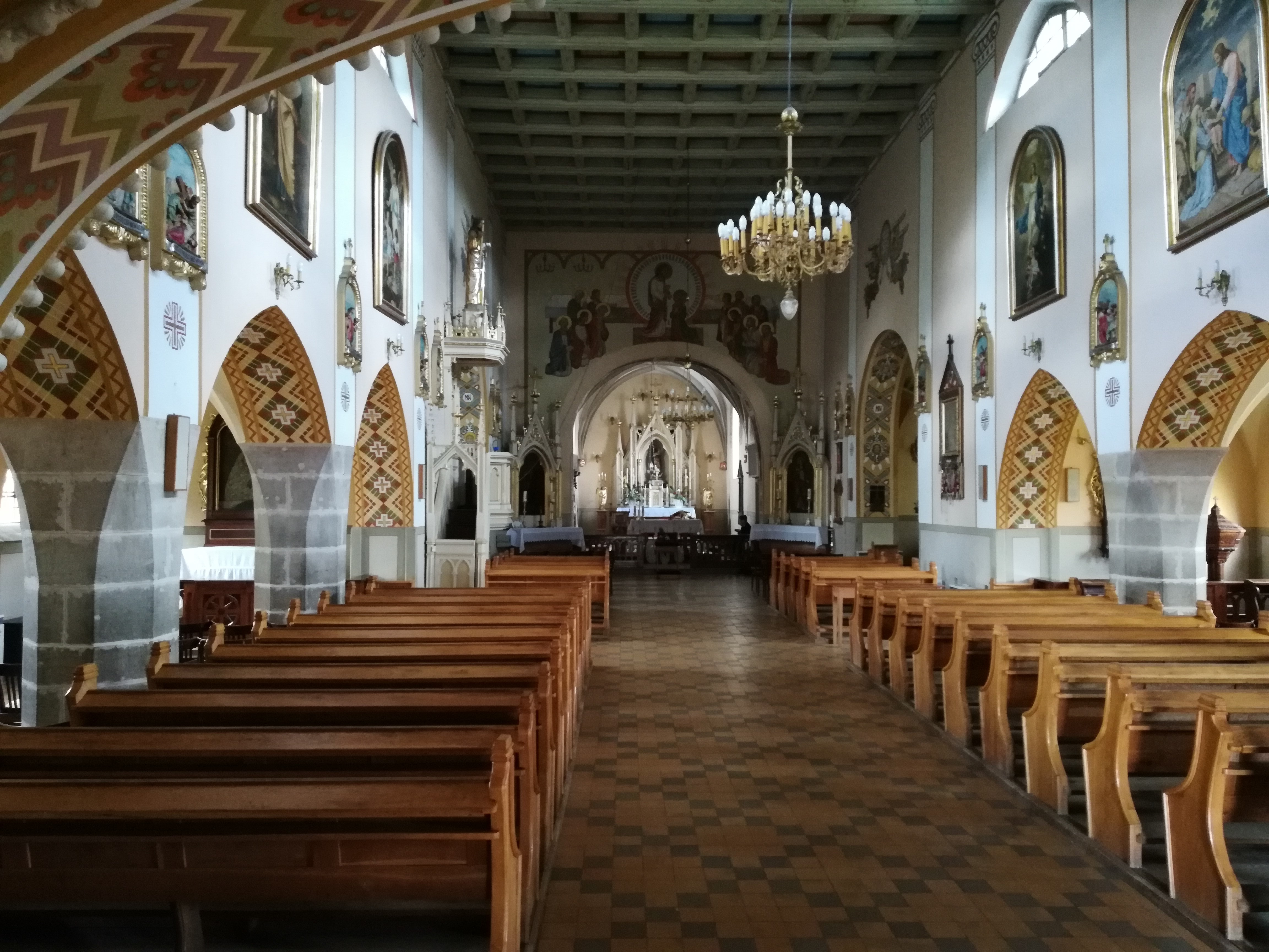 Church of St. Stanisława in Chlewiska, Szydłowiec poviat, Mazowieckie voivodship.